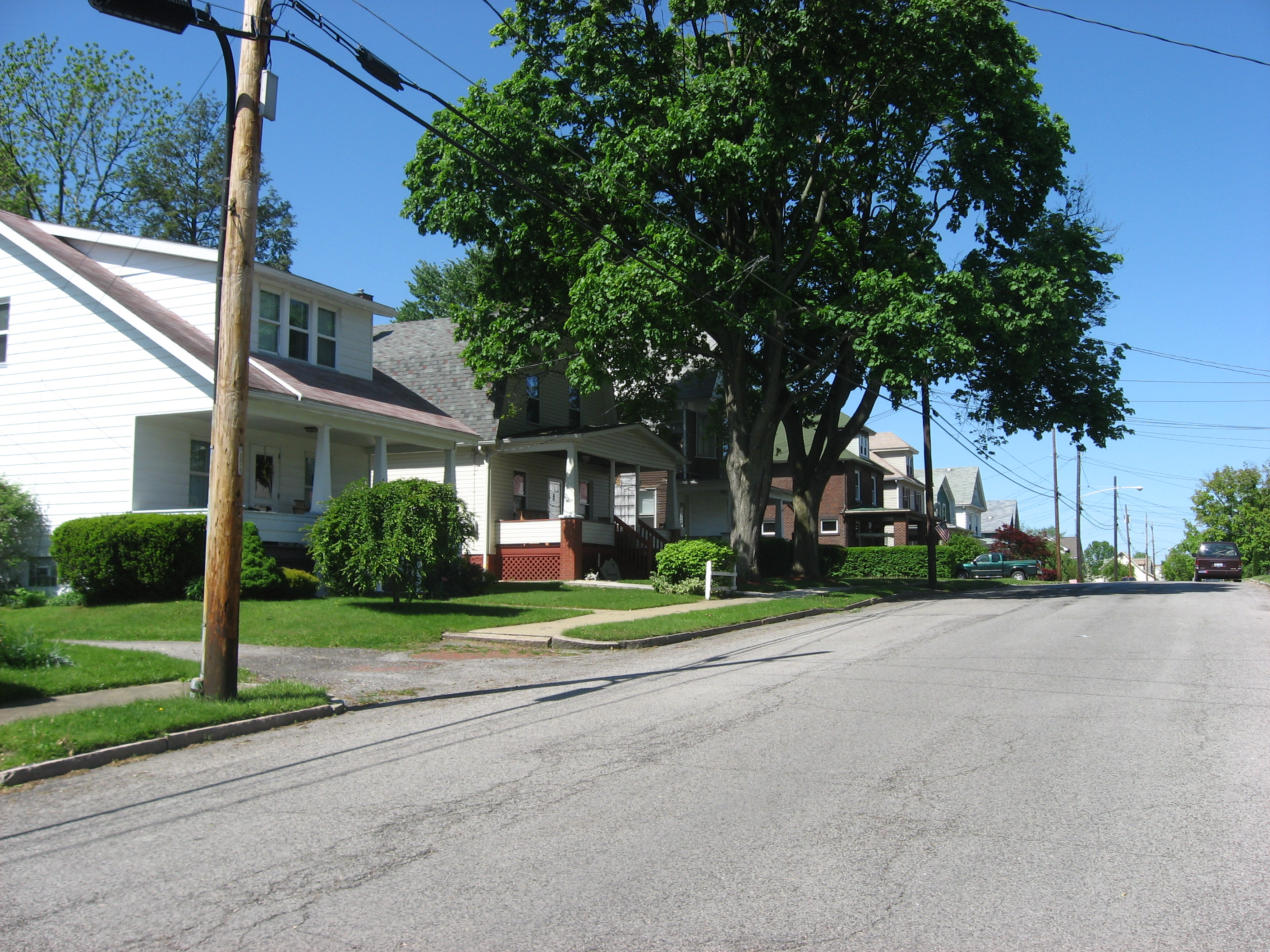 Houses along the southern side of Fairmont Avenue between Delaware and Highland Avenues in New Castle, Pennsylvania, United States. This section of Fairmont is part of the North Hill Historic District, which is listed on the National Register of Historic Places.